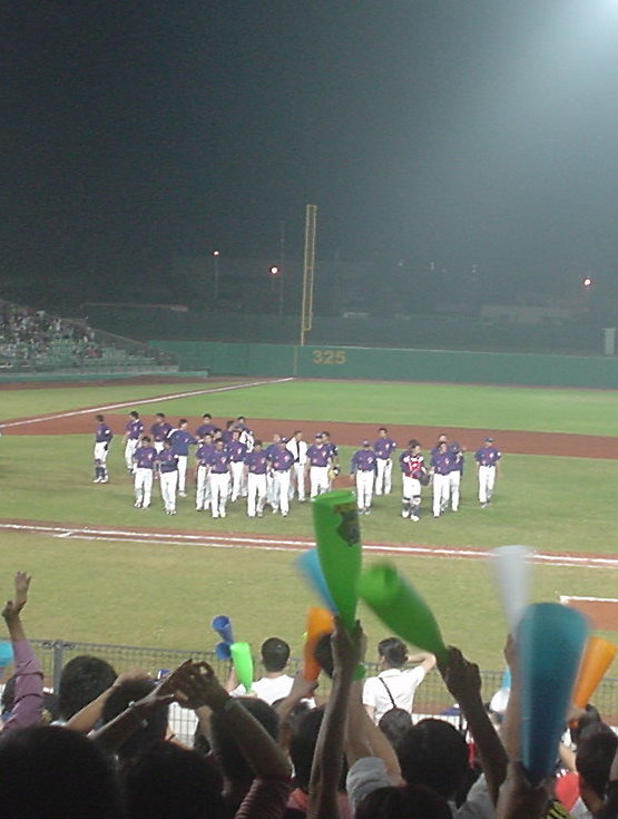 Taiwanese players thanking their home fans after losing the semifinal game against Cuba in the 2006 Intercontinental Cup in Taichung, Taiwan on November 18, 2006 Photo taken on November 18, 2006.